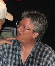 Richie Furay at the South by Southwest Festival 2006.